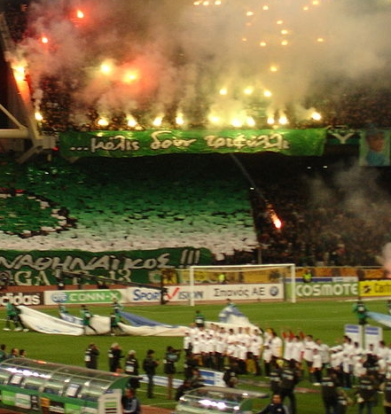 Panathinaikos fans during a match against AEK Athens for the Greek Superleague 2009-10 season